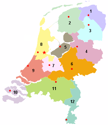 Modified from Image:NederlandseProvincies.png, without text